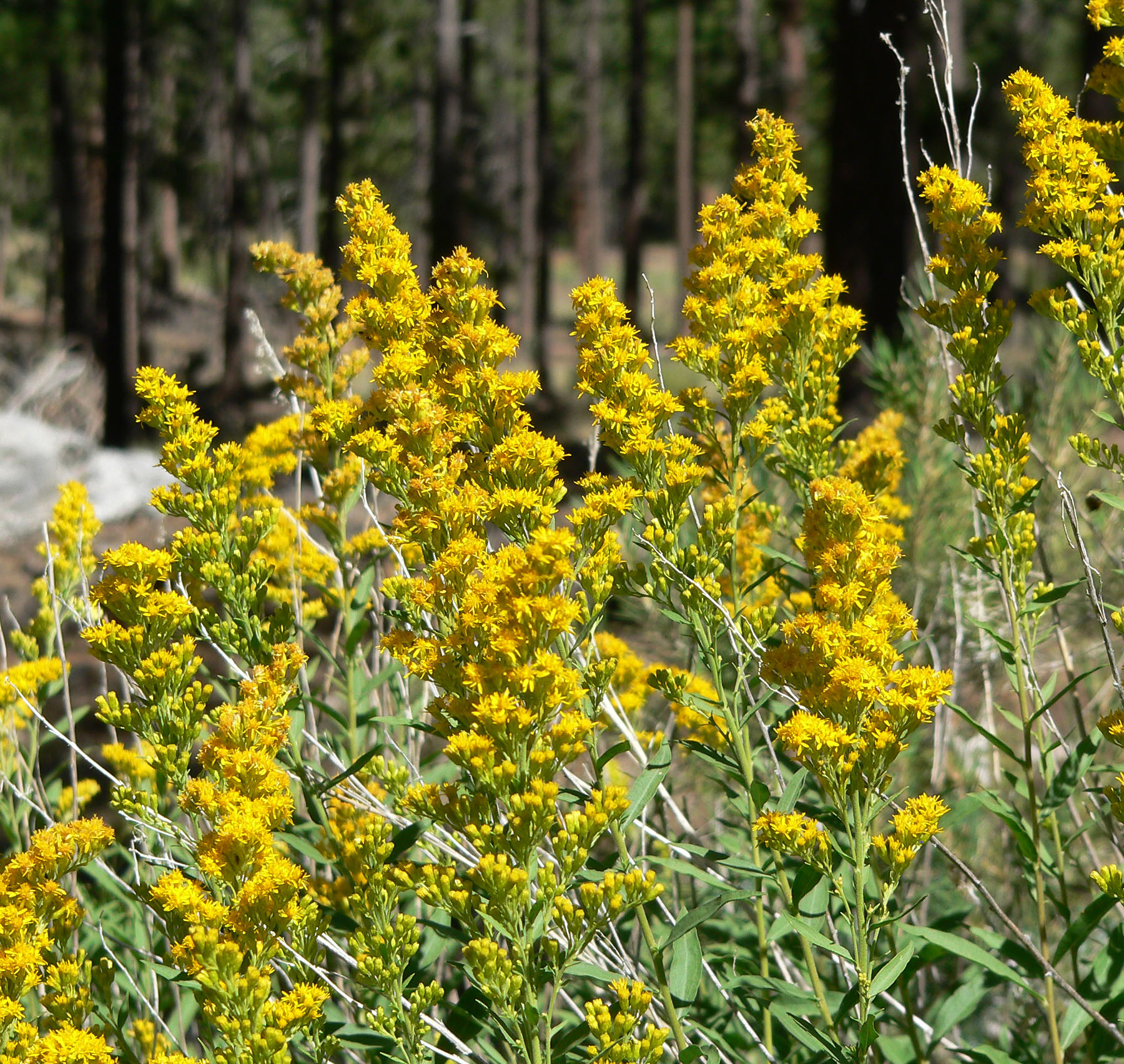 Solidago velutina subsp. sparsiflora in Rainbow Canyon just above the Rainbow Subdivision, Kyle Canyon, Spring Mountains, southern Nevada (elev. about 2300 m)